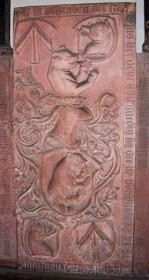 Gravestone of Hans Bär (the elder) in the Basel Minster.